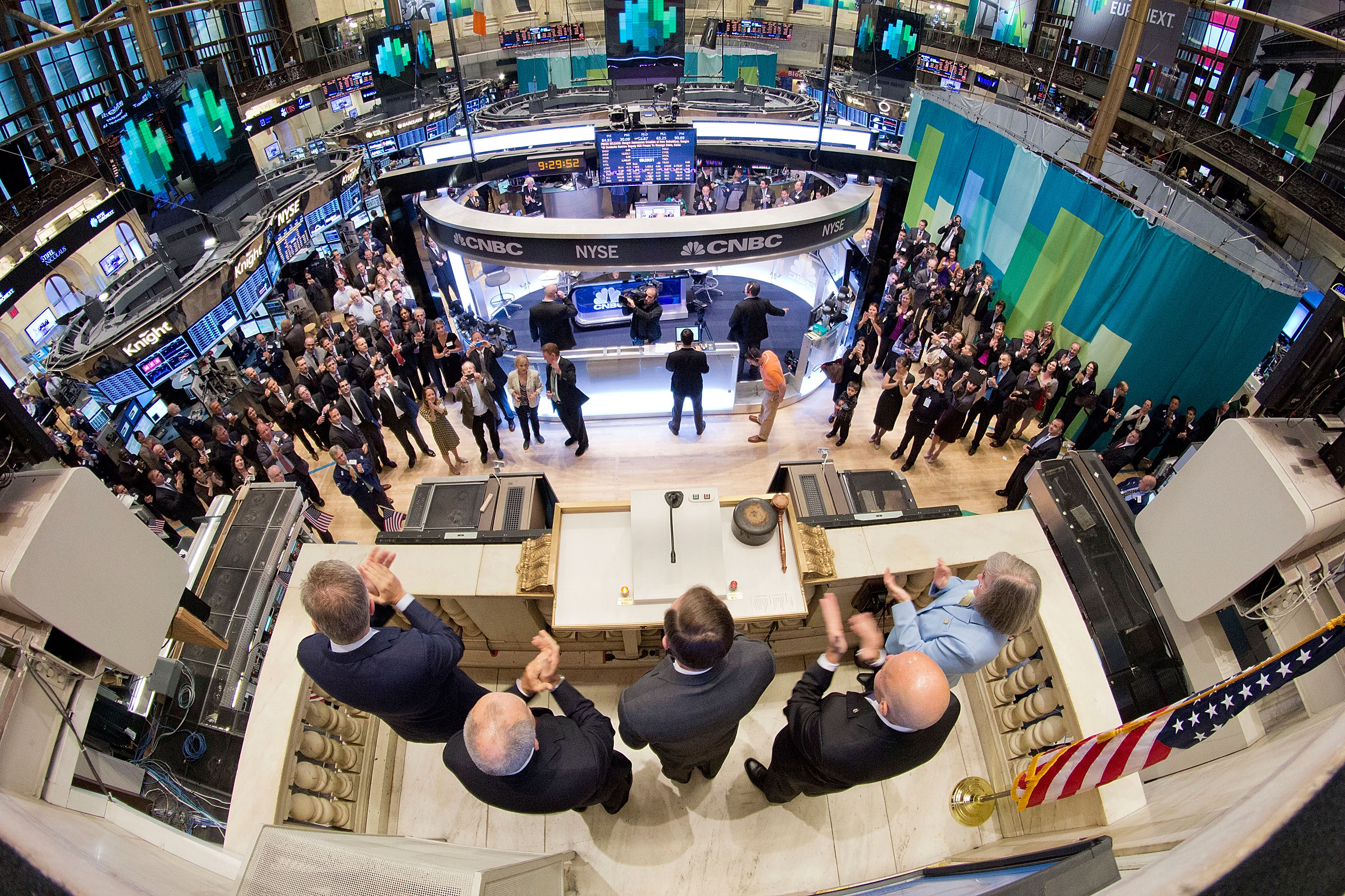 NEW YORK, NY - SEPTEMBER 18: Director David H. Petraeus of the Central Intelligence Agency rings the opening bell at the New York Stock Exchange on September 18, 2012 in observance of CIA's 65th anniversary. For more information about CIA, visit (Photo by Ben Hider/NYSE Euronext)